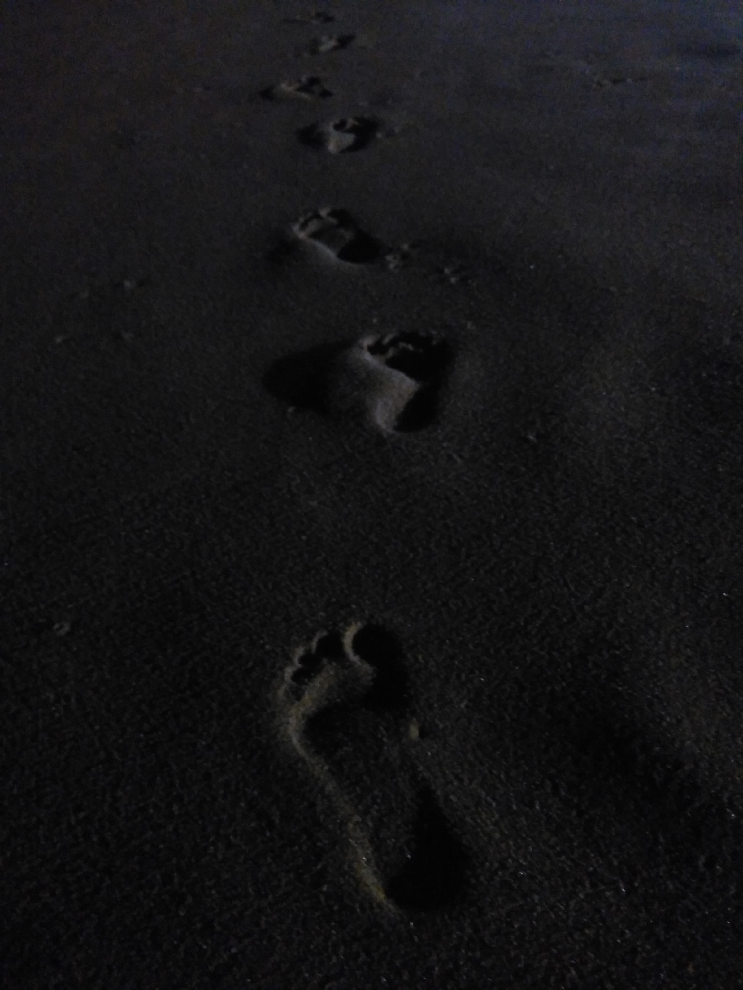 foot prints on sand